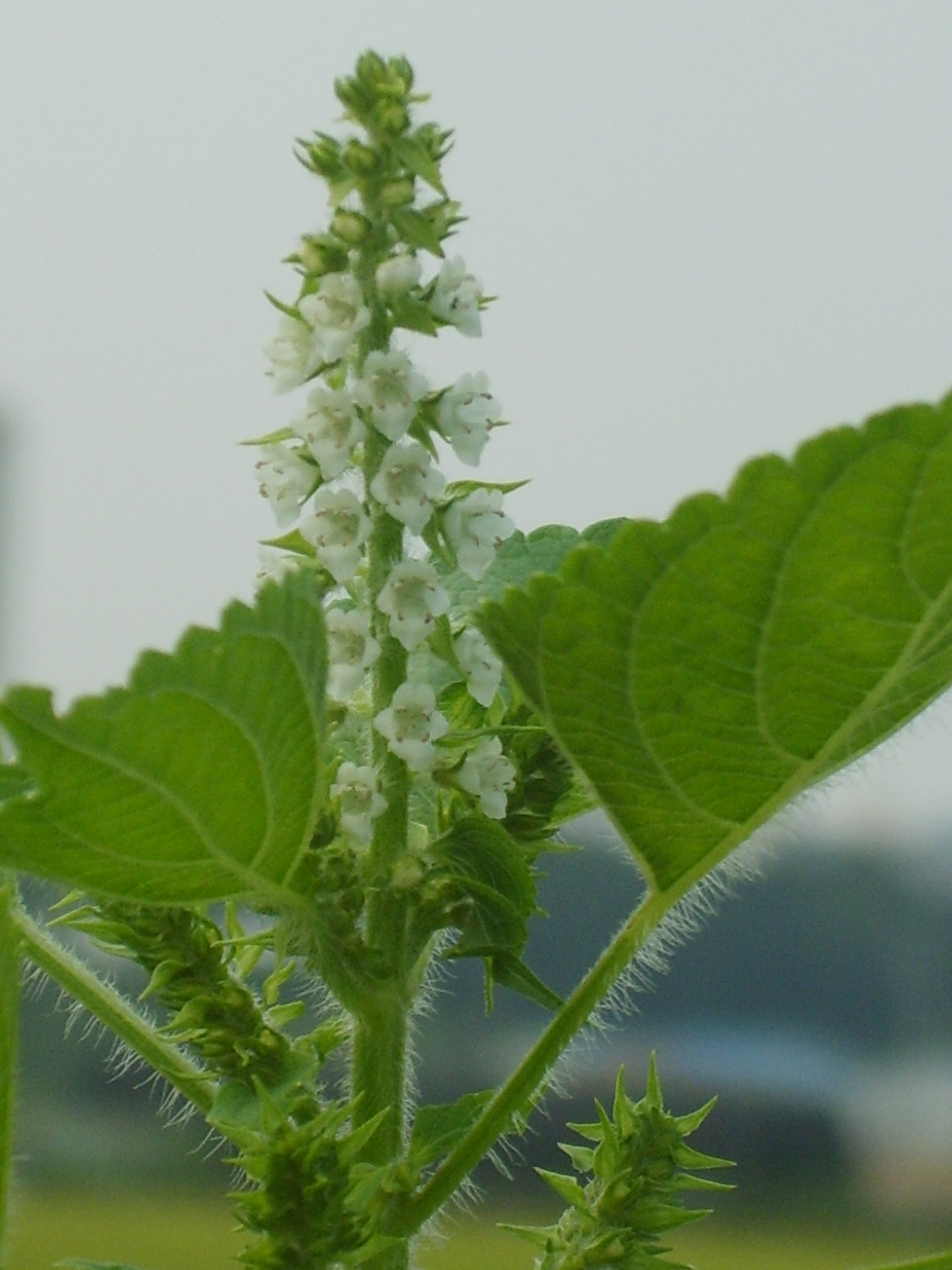 Perilla frutescens' raceme in Gimpo, Korea